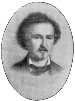 Image scanned from the book "Svenskt Porträttgalleri XX - Arkitekter, Bildhuggare, Målare m.fl. " ("Swedish Portrait Gallery XX - Architects, Sculptors, Painters, ") published 1901